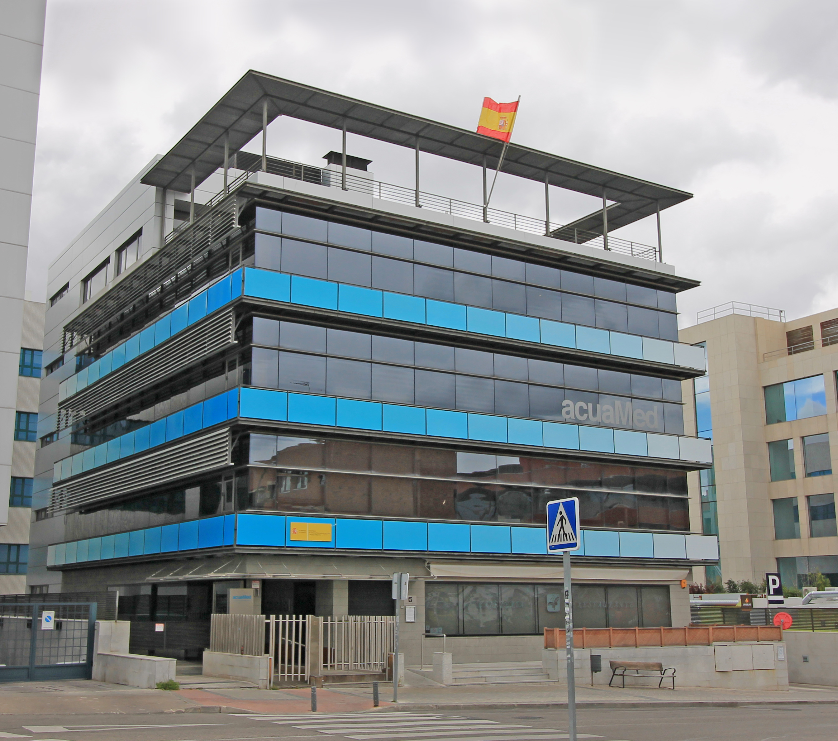 View of Acuamed's headquarters, at 11th Calle de Albasanz (street) in San Blas-Canillejas District in Madrid (Spain).